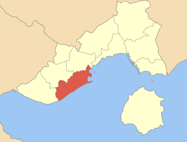 Locator map of Eleftheres municipality (Δήμος Ελευθερών) in Kavala prefecture (Νομός Καβάλας) in Greece.